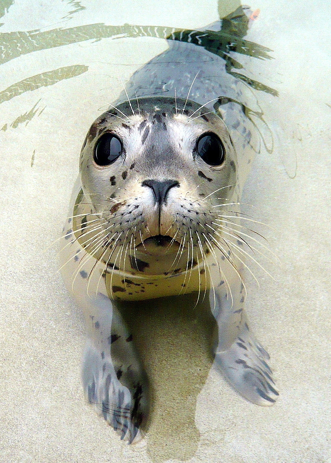 Kiotari, a female Pacific Harbor Seal pup. Rescued on 5/1/10 from Ross Cove at Fitzgerald Marine Reserve in San Mateo, She had been separated from her mother shortly after birth. Kiotari was malnourished and suffering from flipper trauma and an umbilical infection. She was treated and released on 7/24/10 at Point Reyes Marine Reserve, having gained over 10 kg. The spot patterns on a Pacific Harbor Seal are unique to a particular individual. I am the photographer of this picture. It was photographed during my function as a volunteer Harbor Seal caretaker and educational docent for the Marine Mammal Center. Permission is granted to copy, distribute and/or modify this image ONLY if this photo is credited to Aaron J Cohen AND the Marine Mammal Center.